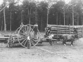 loggers in Otsego County, Michigan